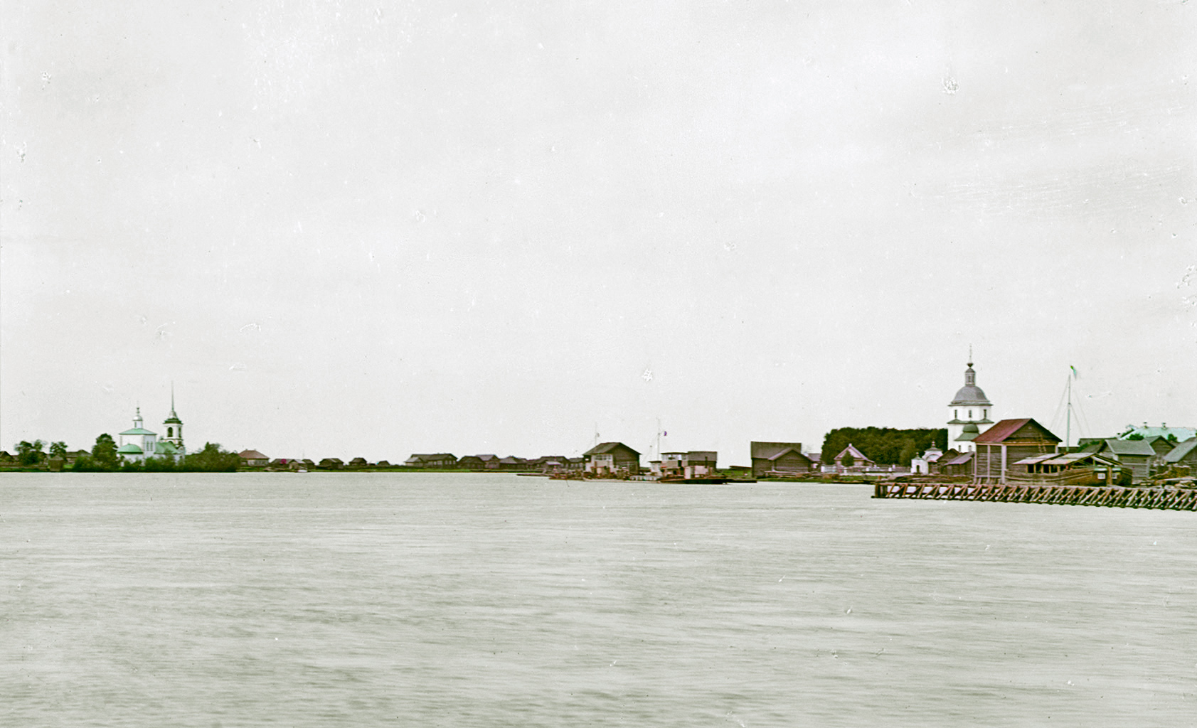 Krokhino village, view from Empress Maria Feodorovna weir, Photo by Prokudin-Gorsky, July 1909